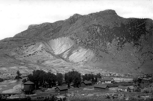 Photograph of Cimarron, Colorado in 1883